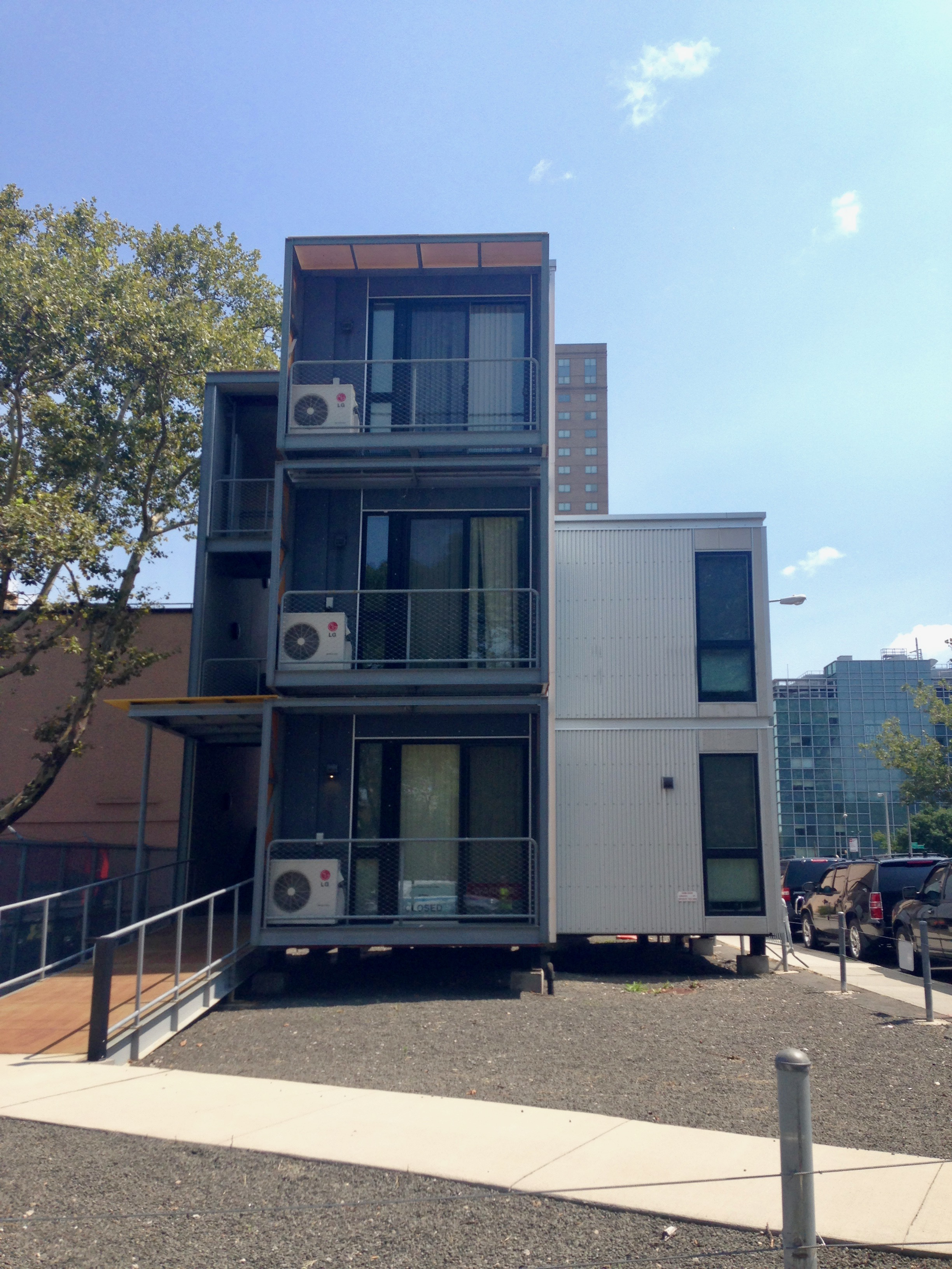 New York City Emergency Management Modular housing units, near 165 Cadman Plaza East, Brooklyn, NY 11201 Front view